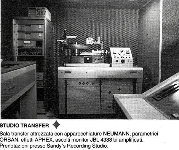 Sandy's Recording Studio Studio Transfer in 1985